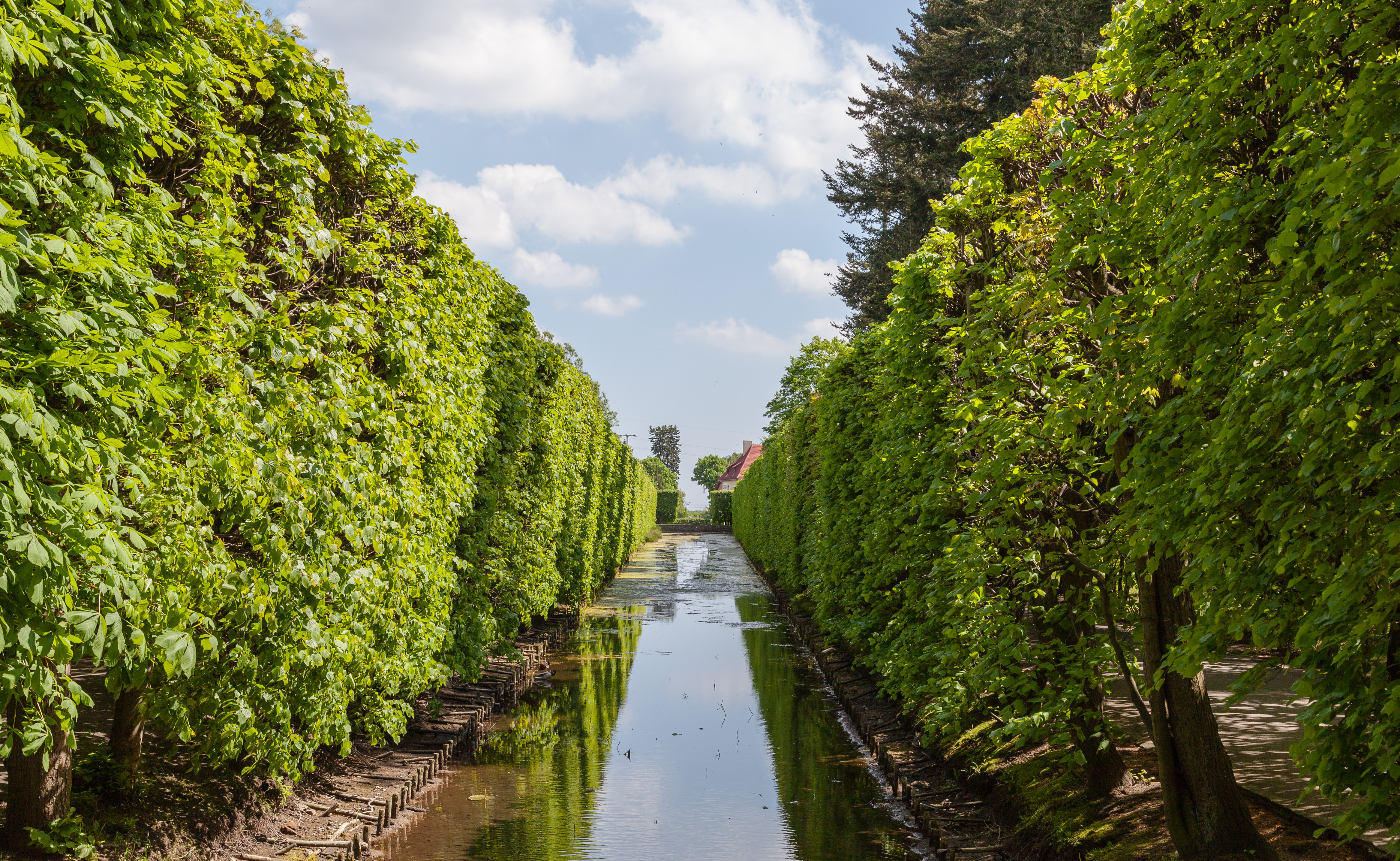 Adam Mickiewicz Park, Oliwa, Gdańsk, Poland